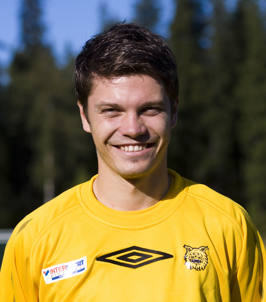 Football player Kaarlo Rantanen of Ilves Tampere